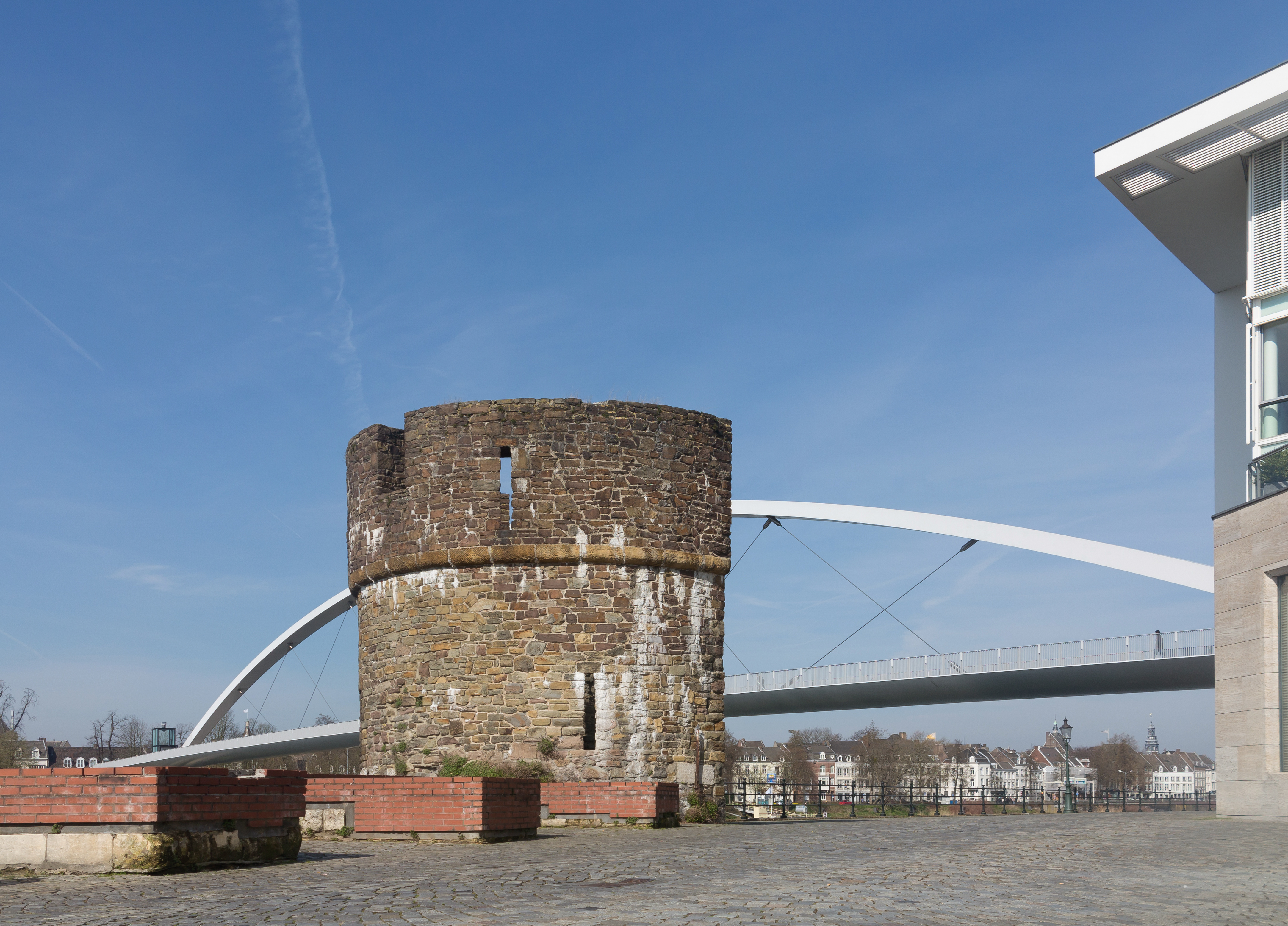 Maastricht, tower at the Meuse near Plein 1992